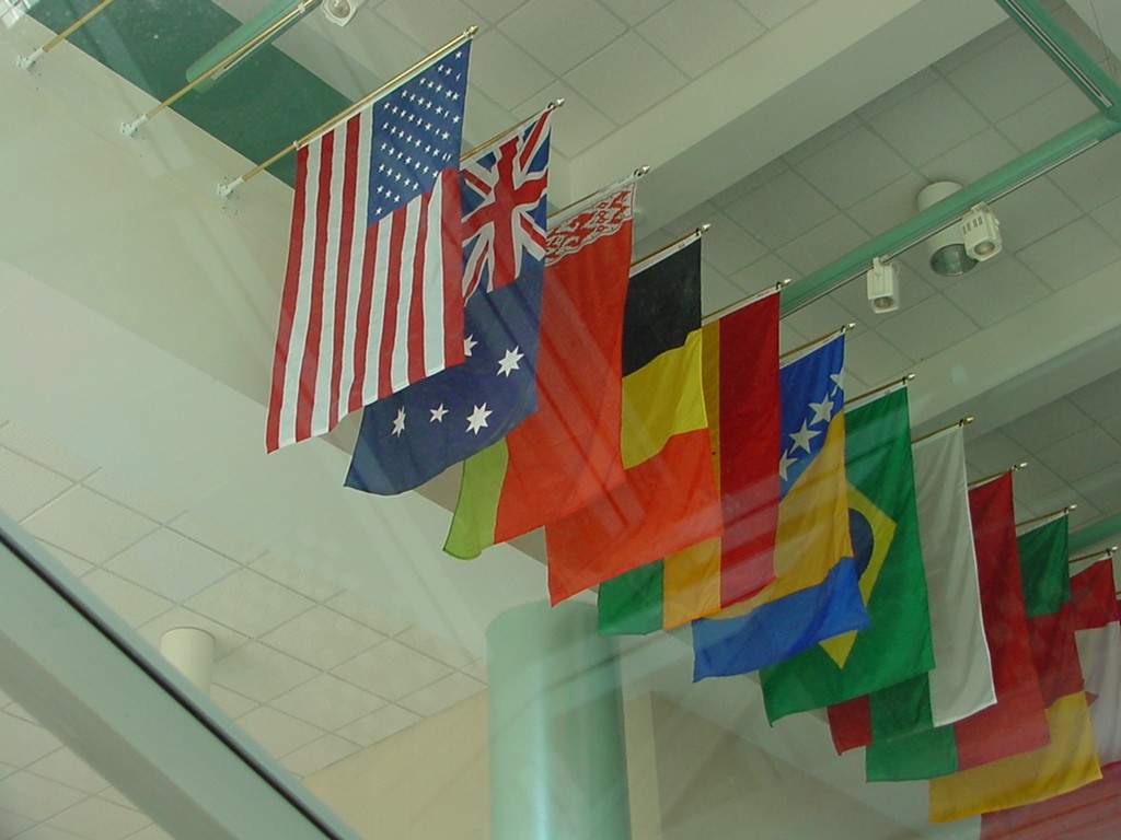 Court of Flags, Atrium, Guillot University Center, University of North Alabama. Taken by my, March, 2007.